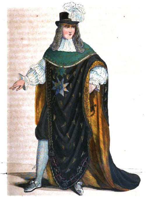 Knight of the Order of the Holy Spirit